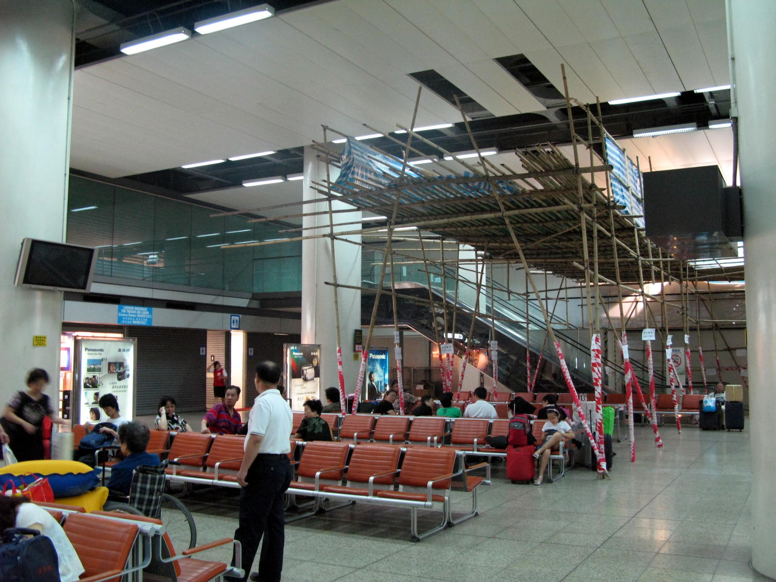 紅磡站直通車大堂 Hung Hum Through Train Concourse